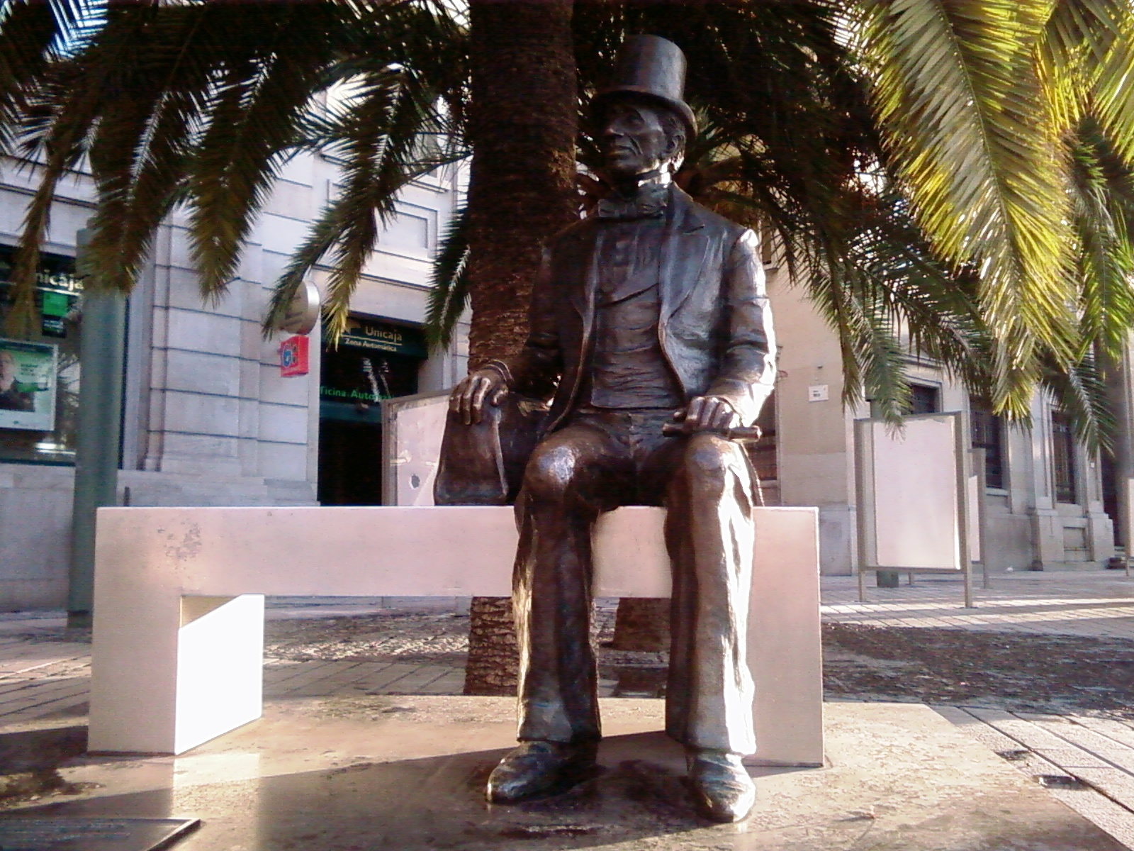 Hans Christian Andersen sculpture in Málaga, Spain